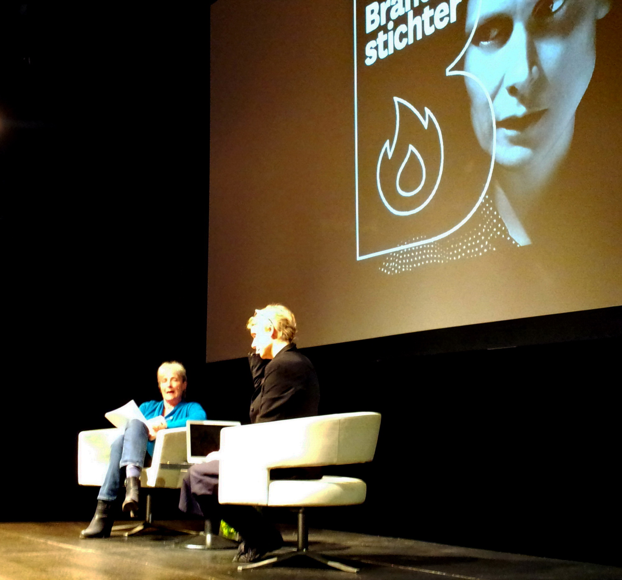 British theatre director Katie Mitchell on stage at Stadsschouwburg Amsterdam during an interview with Clairy Polak on March 15, 2015.